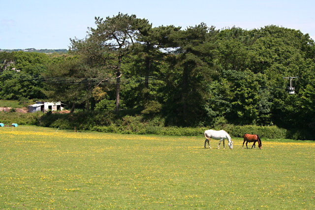 Horses Grazing A meadow just outside St Day.